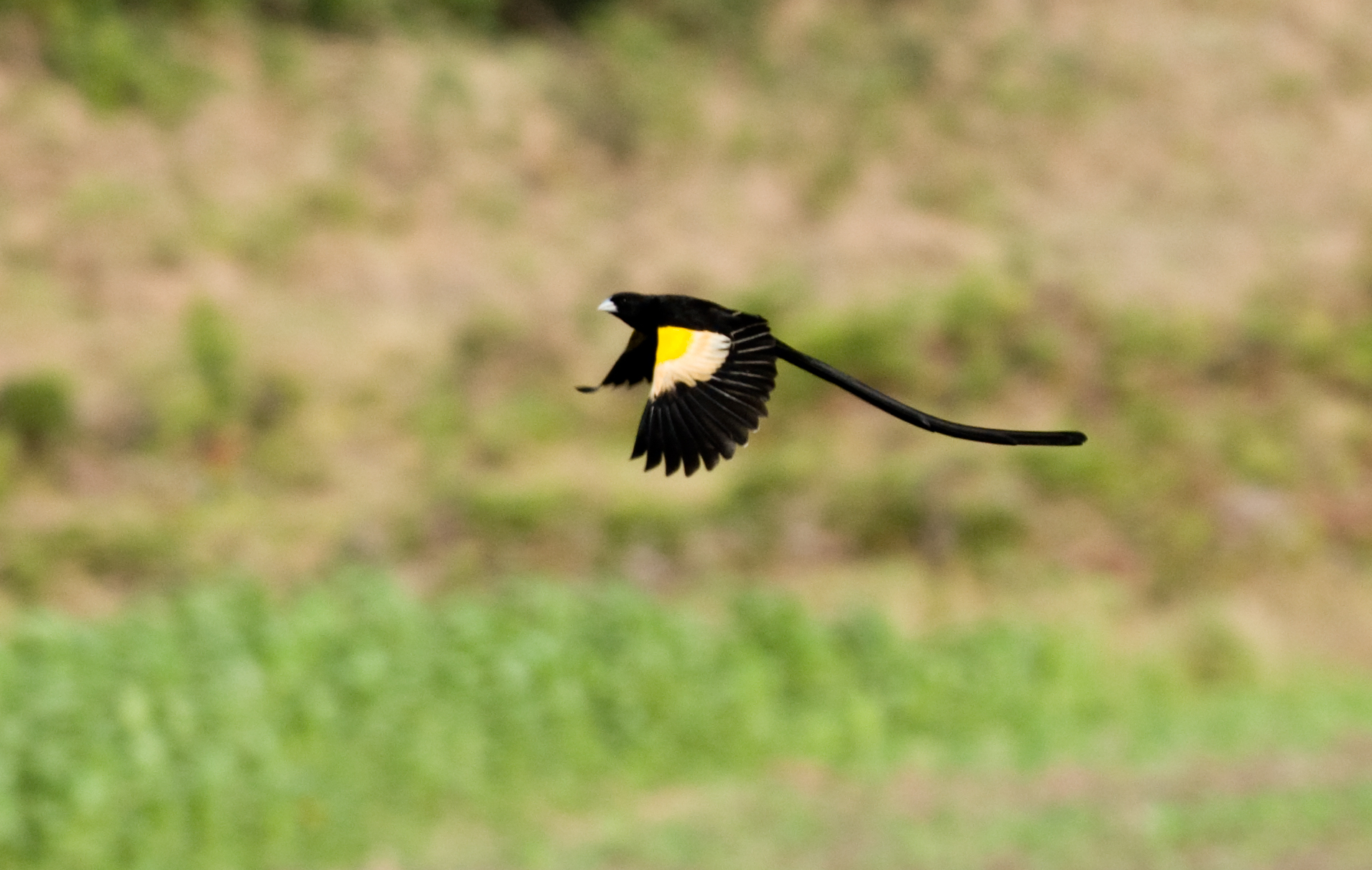 Montane Marsh Widowbird Euplectes psammocromius in flight, captured near Mtitu River, Kilolo district, Tanzania.